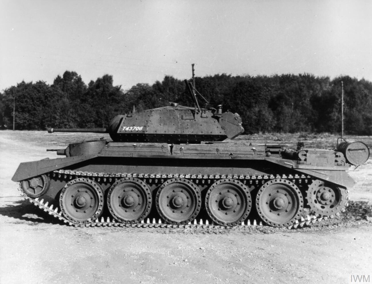 TANKS AND AFVS OF THE BRITISH ARMY 1939-45; Cruiser Mk VI Crusader I (A15)